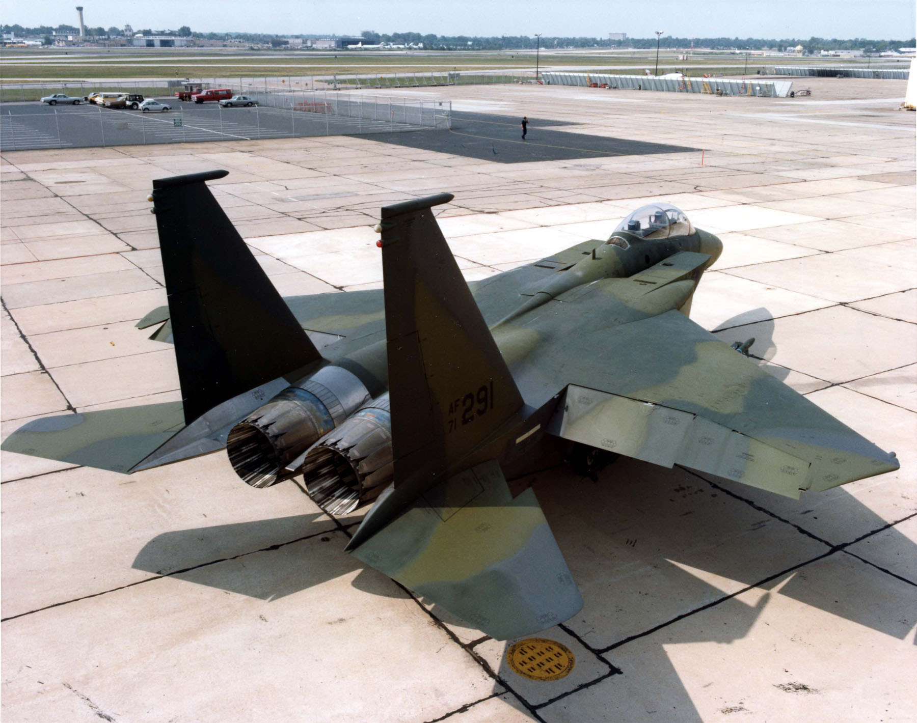 McDonnell Douglas F-15E Prototype. 3/4 aft view of prototype F-15E (converted F-15B, S/N 71-0291).